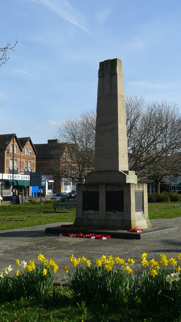 War Memorial, Wallington Green Daffodils bring a welcome splash of Spring colour to this scene, on the edge of Wallington Green.